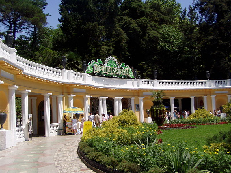 Dendrarium of Sochi (Russia) main entrance